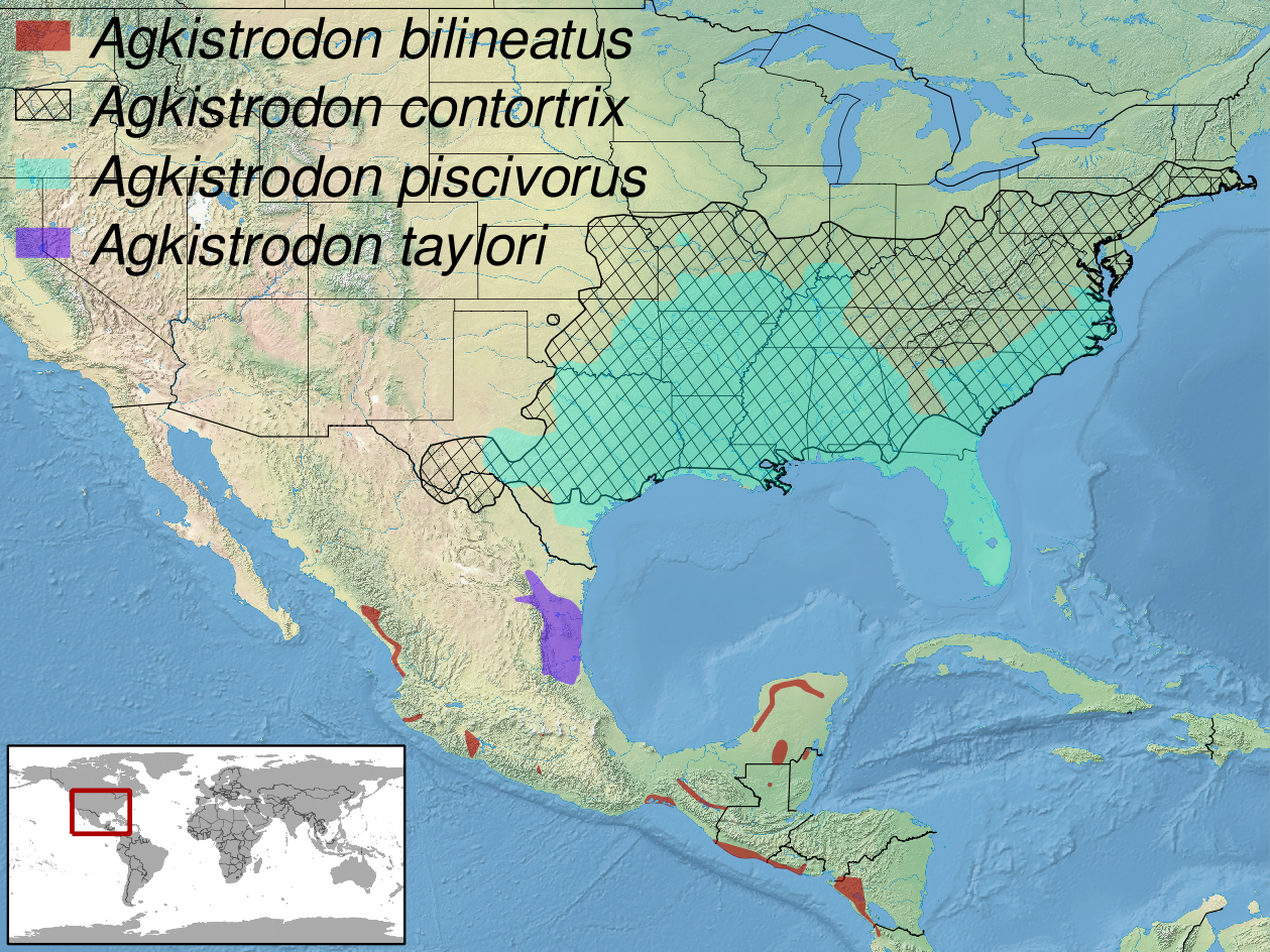 geographic distribution of the genus Agkistrodon included species for RDB: Agkistrodon bilineatus Günther, 1863 Agkistrodon contortrix (Linnaeus, 1766) Agkistrodon piscivorus (Lacépède, 1789) Agkistrodon taylori Burger & Robertson 1951